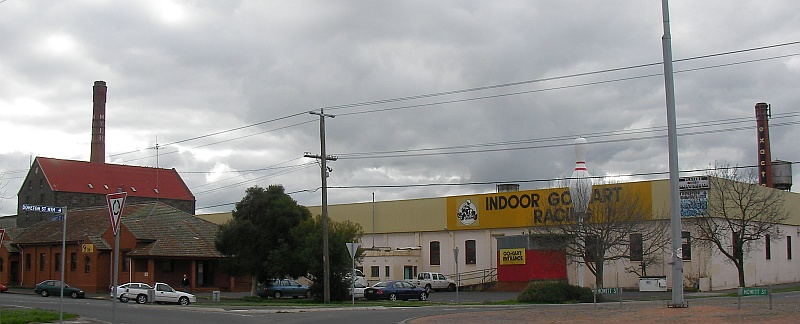 Intersection of Howitt and Doveton Streets, North Ballarat VIC